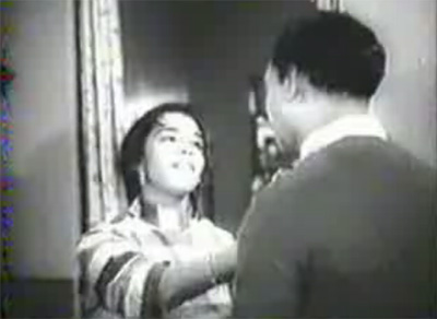 A still from the Konkani cinema film Amchem Noxib (1963).